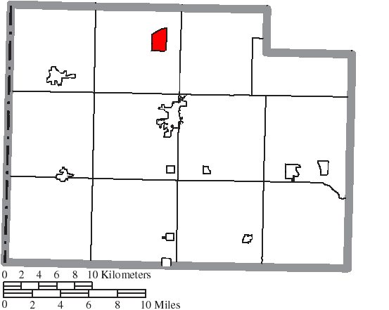 Map of the municipal and township boundaries of Paulding County, Ohio, United States, as of the 2000 census, with the location of the village of Cecil highlighted. Township borders are shown only in unincorporated areas in order to differentiate incorporated and unincorporated areas more clearly.